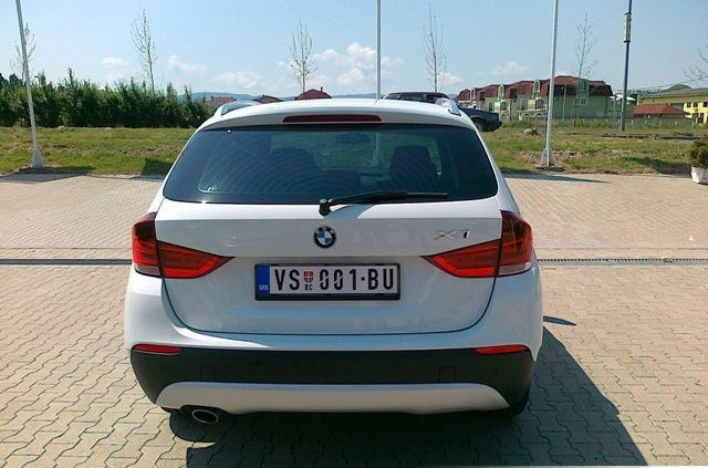 Vehicle Registration